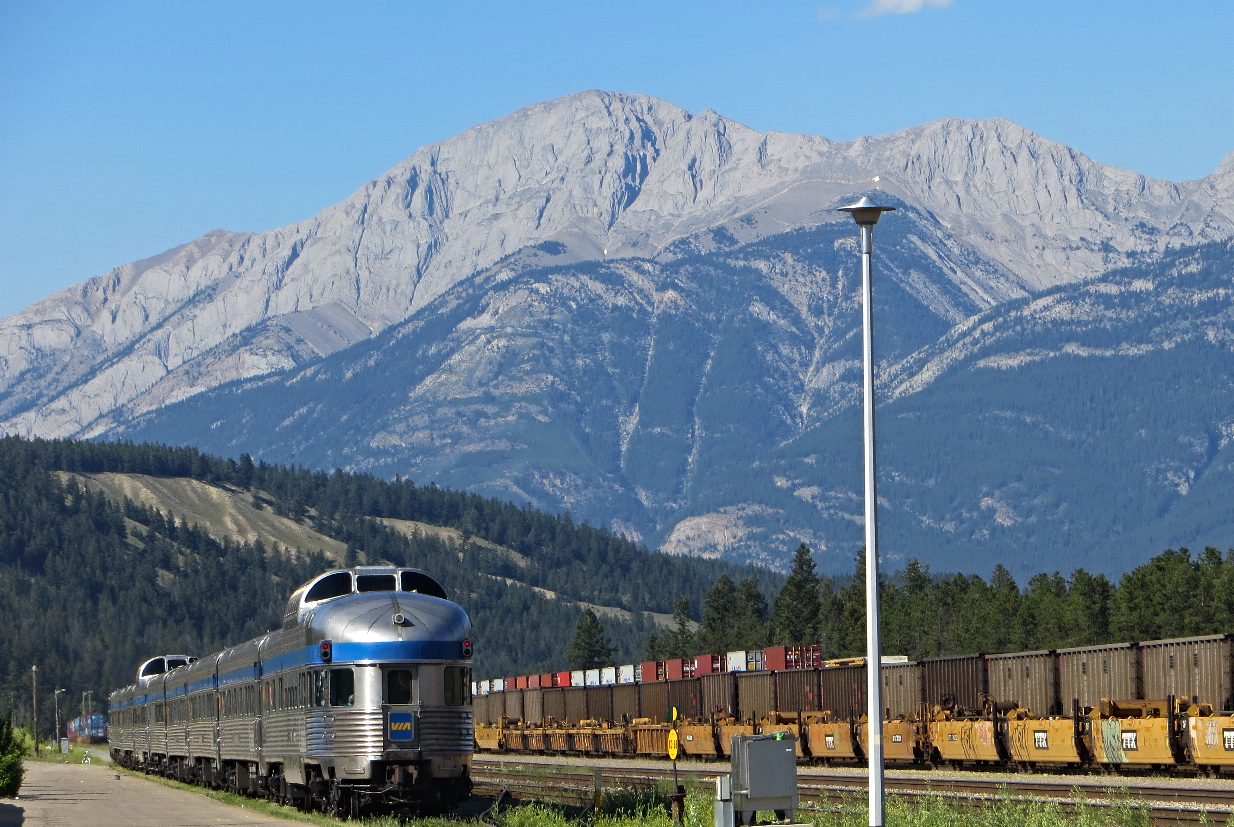 Hawk Mountain seen from Jasper, Alberta train station